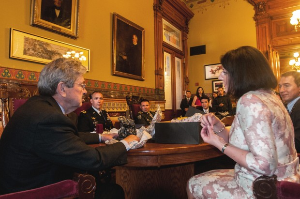 The President of Kosovo (right), presents the Governor of Iowa (left) with a gift during her first visit to Iowa. The trip helped support and strenghten the partnership enjoyed between the state of Iowa and the country of Kosovo.